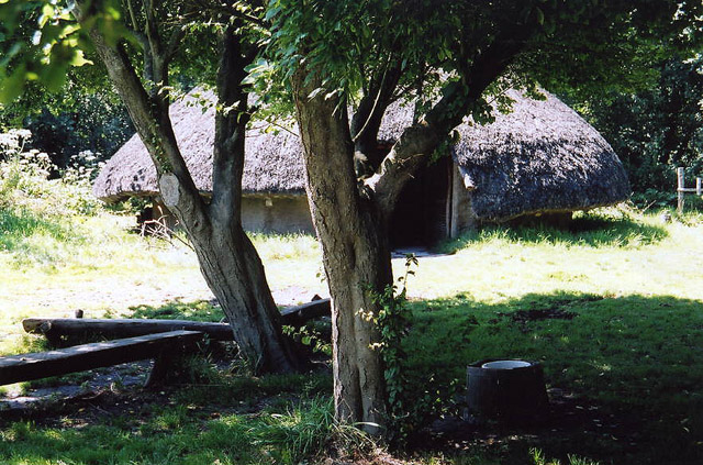 Westhay: Roundhouse at Peat Moors Centre, Somerset. Replica Iron Age house built in 1992, the centenary of the discovery of the Glastonbury Lake Village.